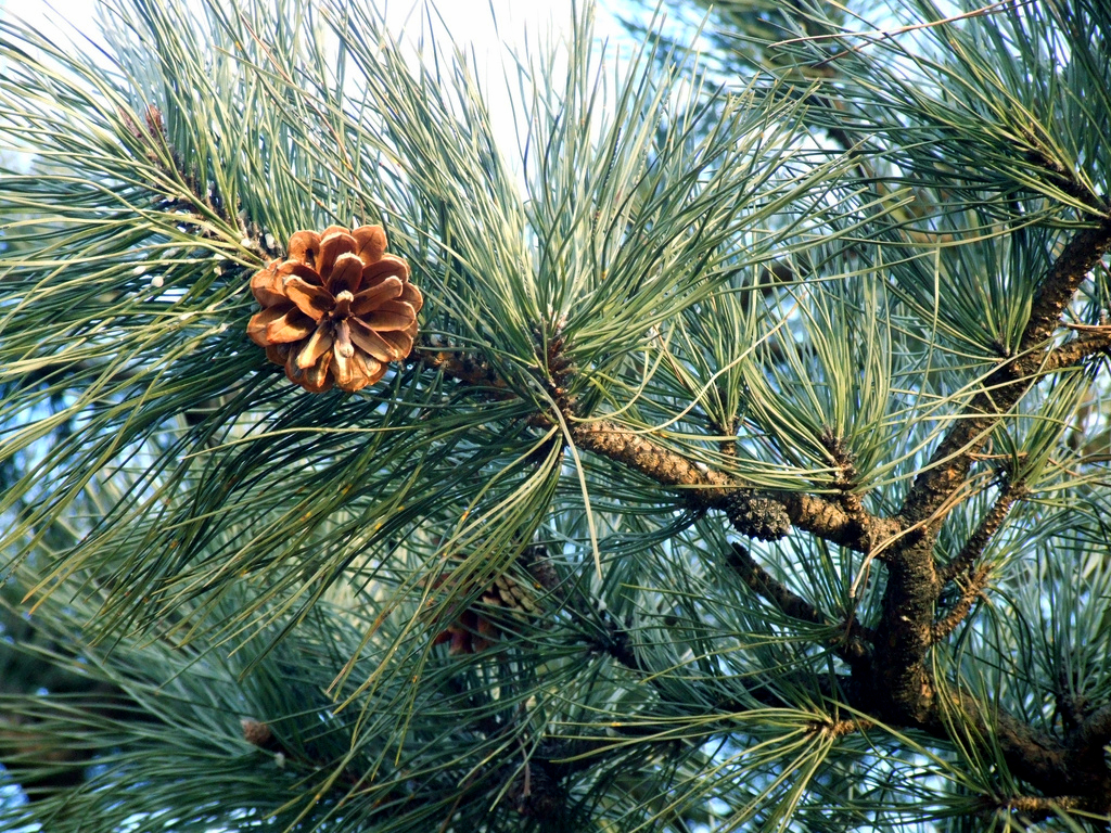 Pinus tabuliformis foliage and cone, Beijing, China